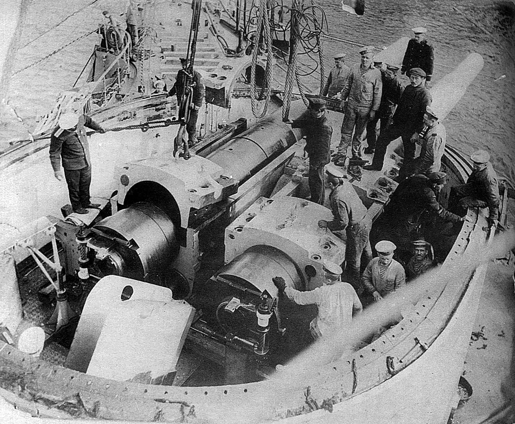 Imperial Russian battleship Tsesarevich is changing 12 inch guns.